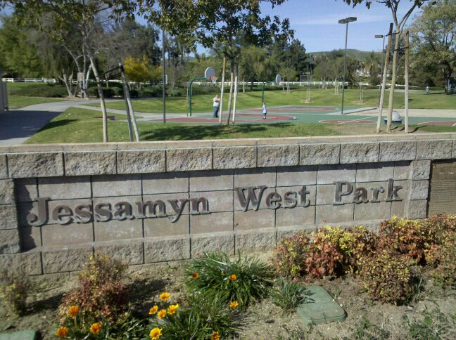 Jessamyn West Park on Yorba Linda Blvd.